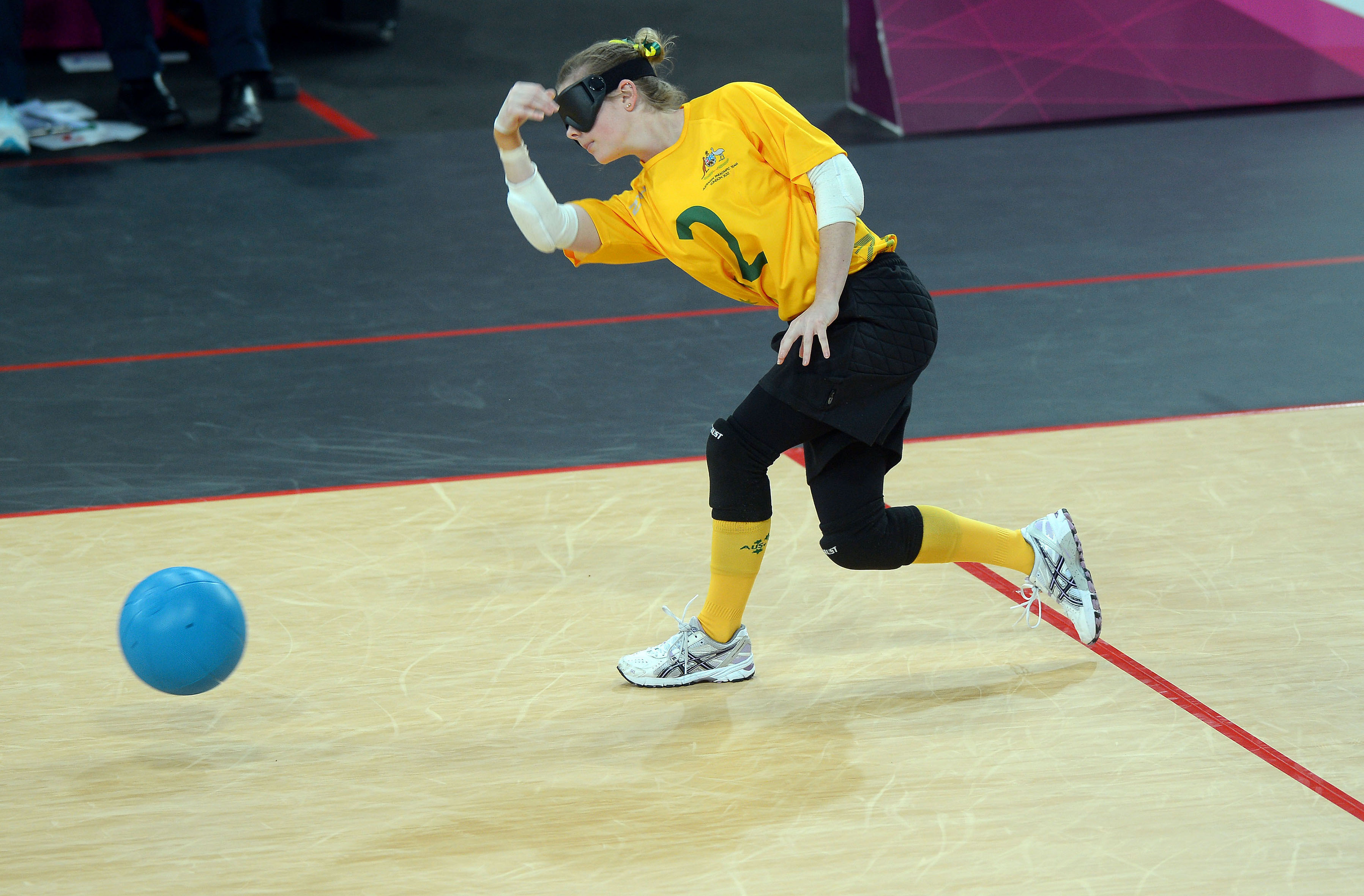 Photograph of Australian Paralympic team member Tyan Taylor at the 2012 Summer Paralympic Games in London